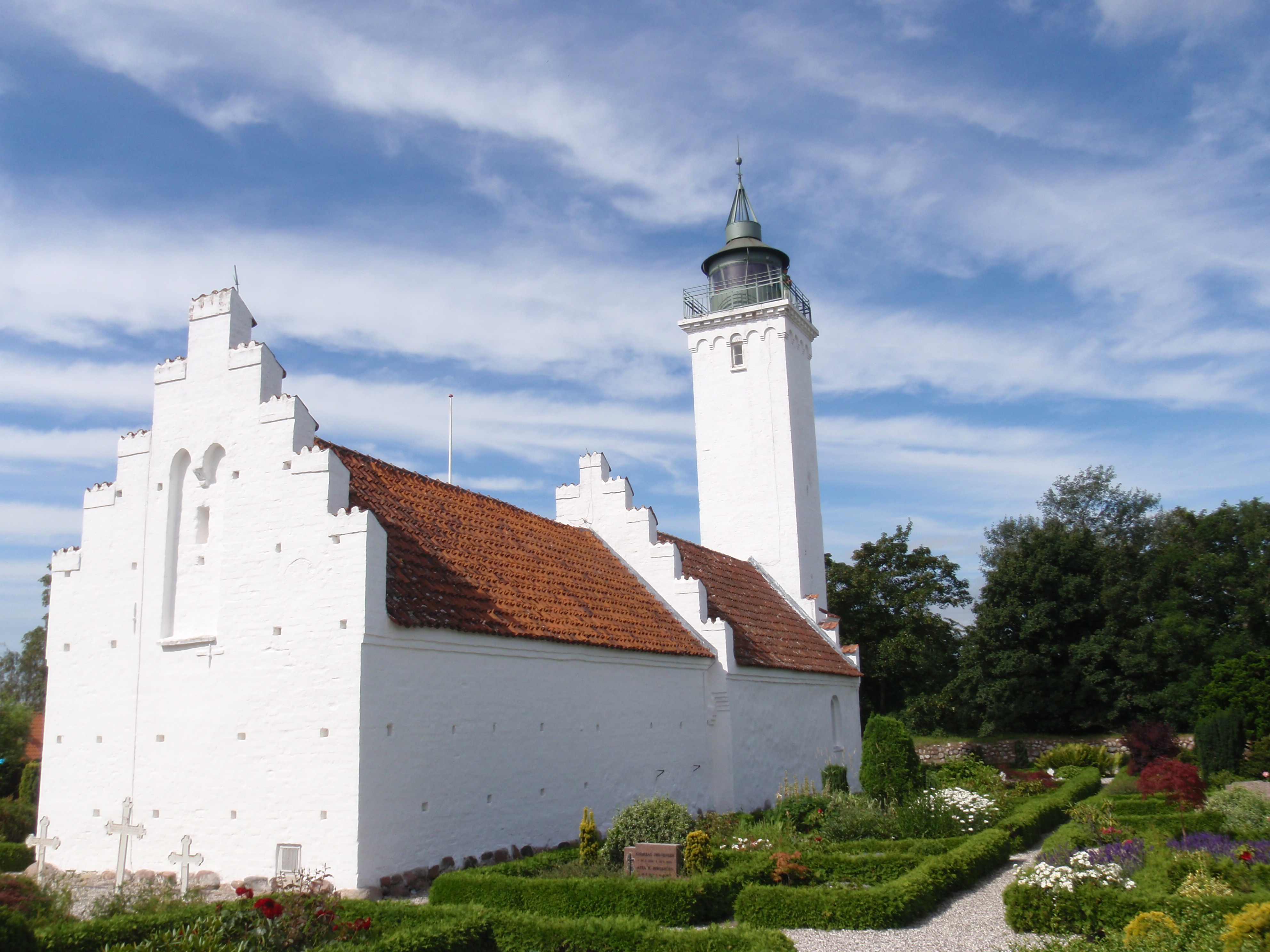 Church on the Danish island of Tunø, with tower and lighthouse visible. Photograph taken from the back side of the church.